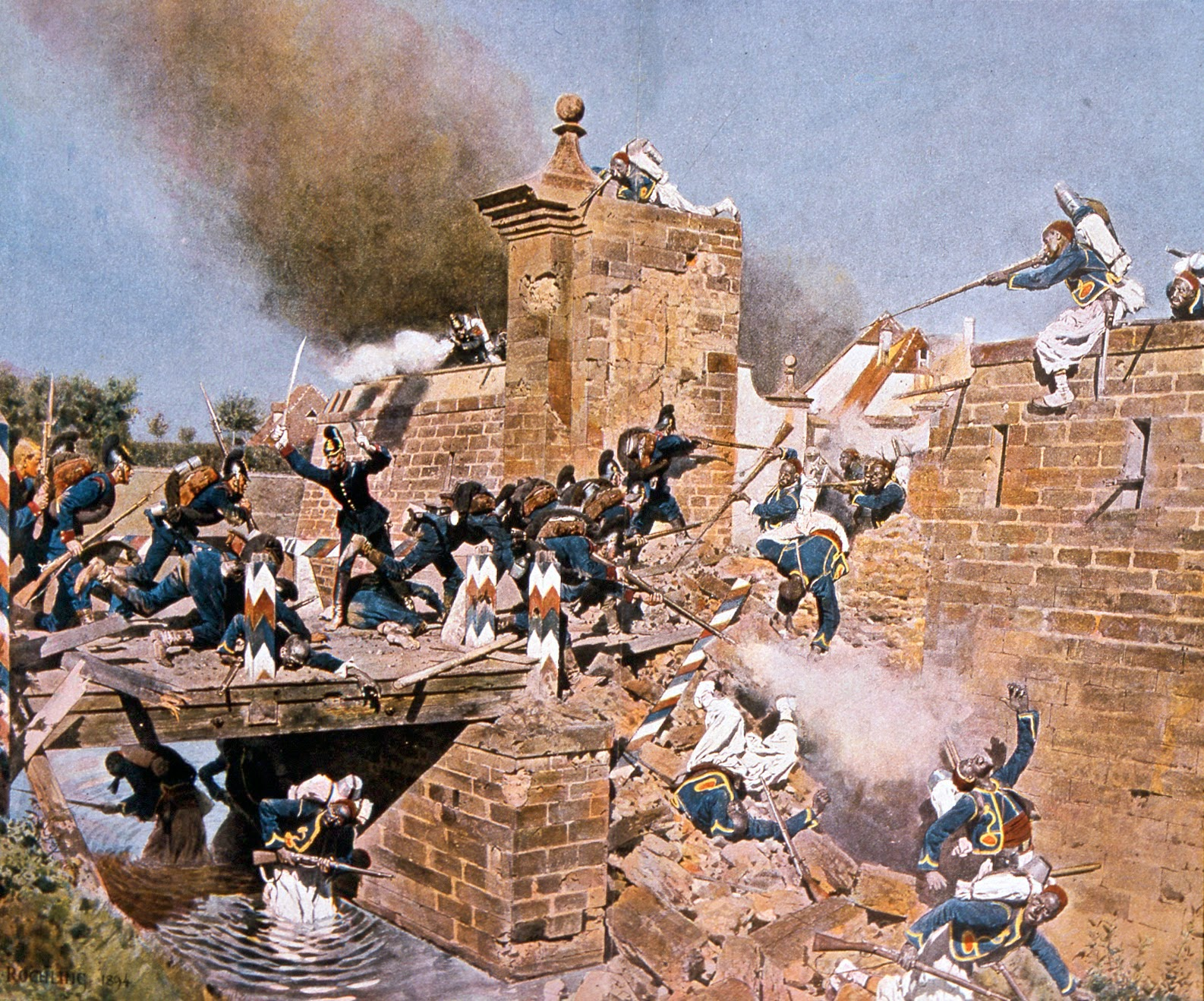 Painting depicting the assault of Bavarian troops on the Landau Gate during the Battle of Wissembourg, August 4th, 1870.